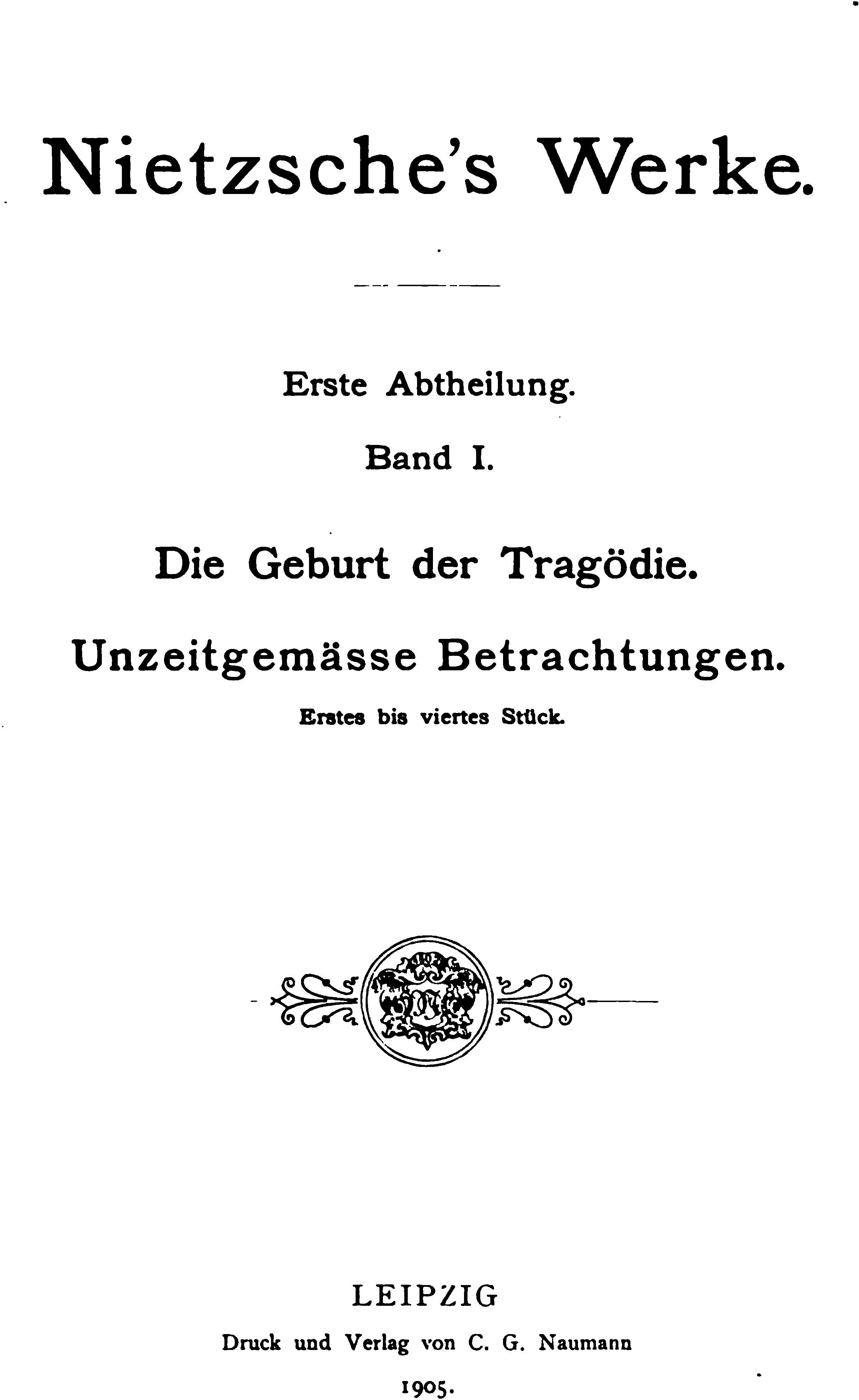 The complete works of Friedrich Nietzsche, Volume I